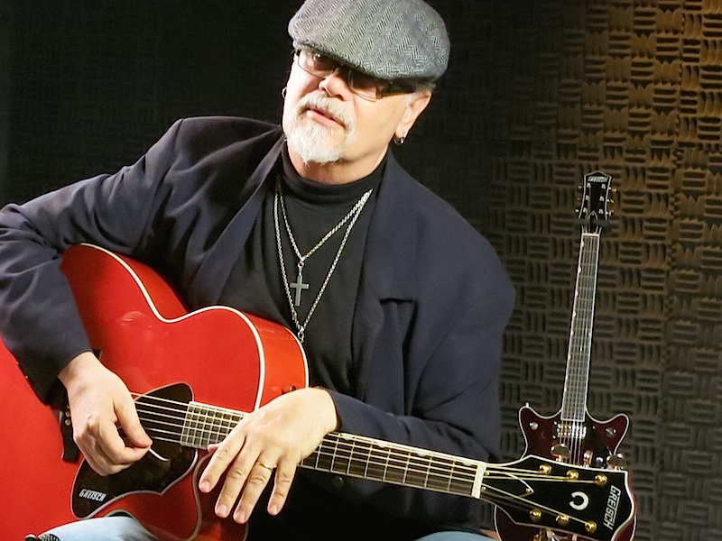 Steve Hunter, guitar player for Peter Gabriel, Lou Reed, Alice Cooper and Tracy Chapman.